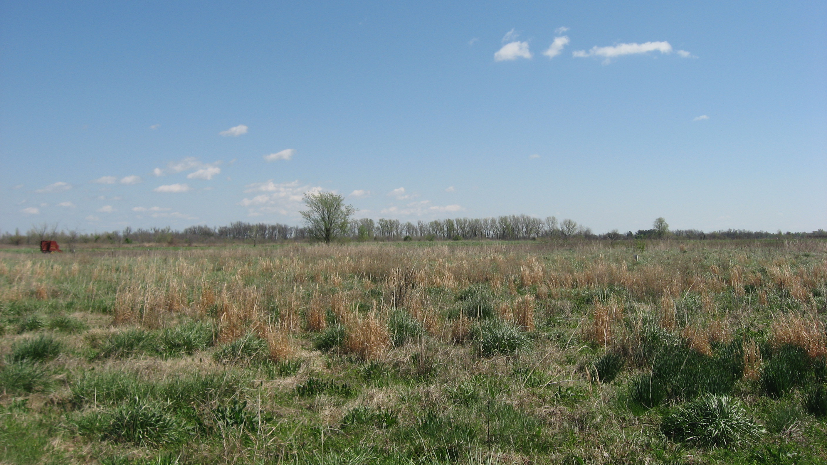 Looking northeastward from the North Sawba Cemetery over fields on the former Eaker Air Force Base in Blytheville, Arkansas, United States. The fields are known as the Eaker Site; one of the most important archaeological sites in northeastern Arkansas, they have been designated a National Historic Landmark.